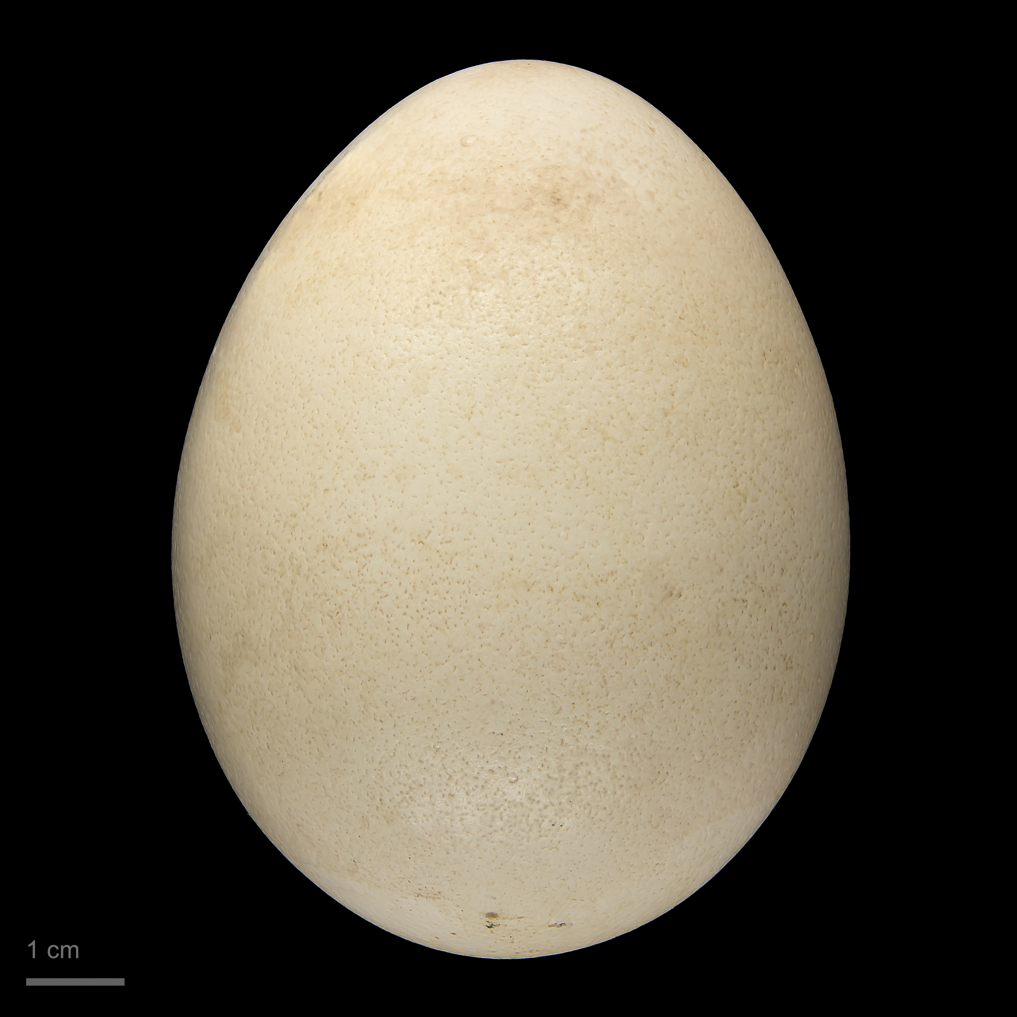 Egg of Indian peafowl Collection of Jacques Perrin de Brichambaut.